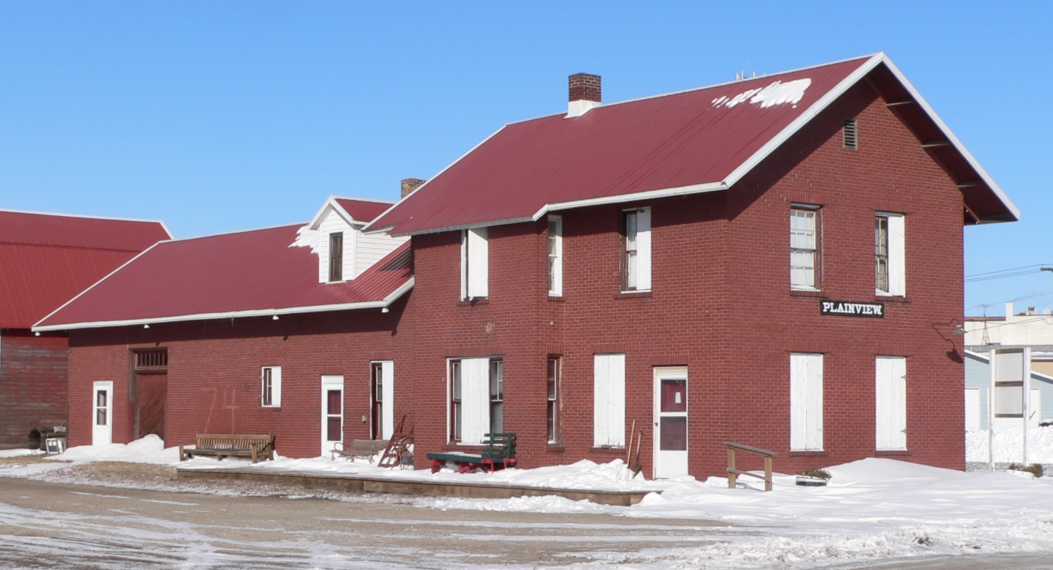 Plainview Historical Museum in Plainview, Nebraska; seen from the south. (The building's long side runs southeast-northwest.) Originally the Fremont, Elkhorn and Missouri Valley Railroad Depot, it was built in 1880. It is listed on the National Register of Historic Places. The brick wall and red roof visible at the left edge of the picture are not part of the depot building.